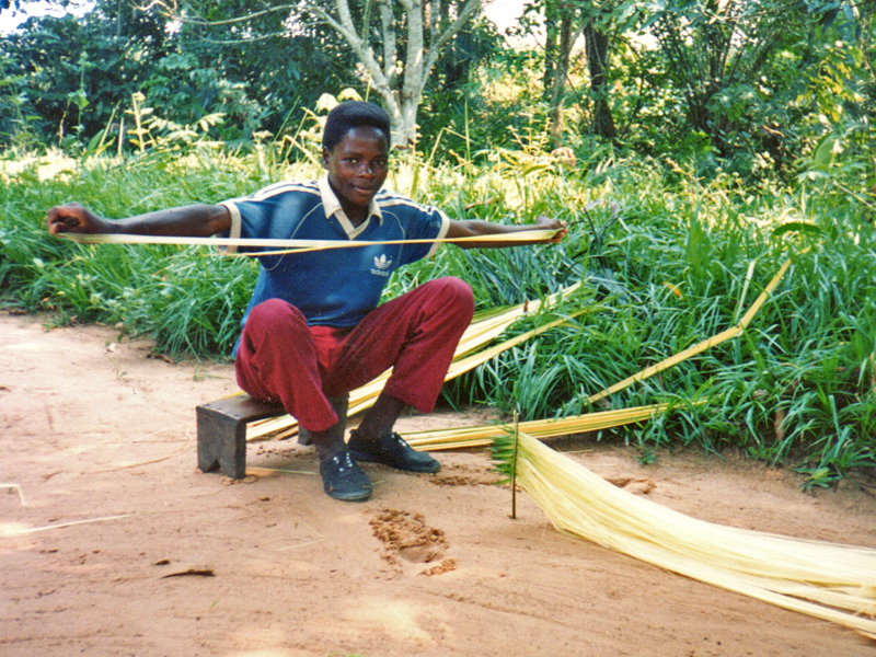 Step 1 - Raffia palm fronds are stripped leaving the fibrous inner layer in strips seen stacked on the right.